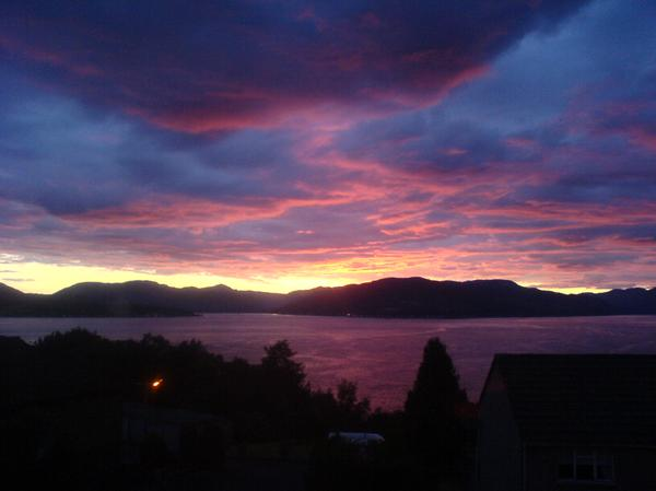 Photo taken by Gordon McKay